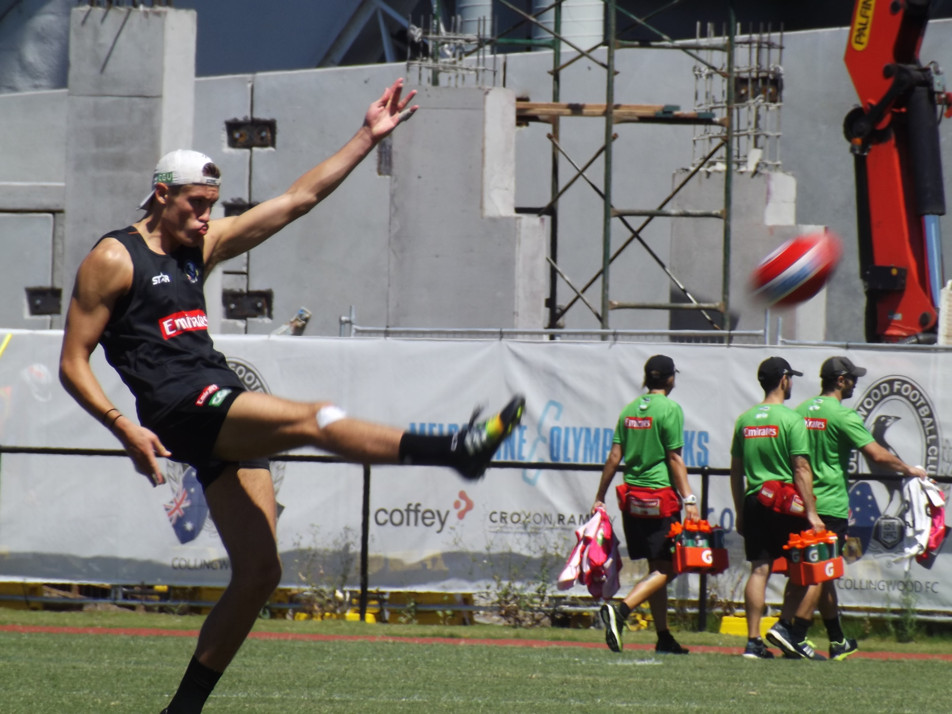 Darcy Moore with Collingwood during an open training session at Olympic Park, Melbourne.